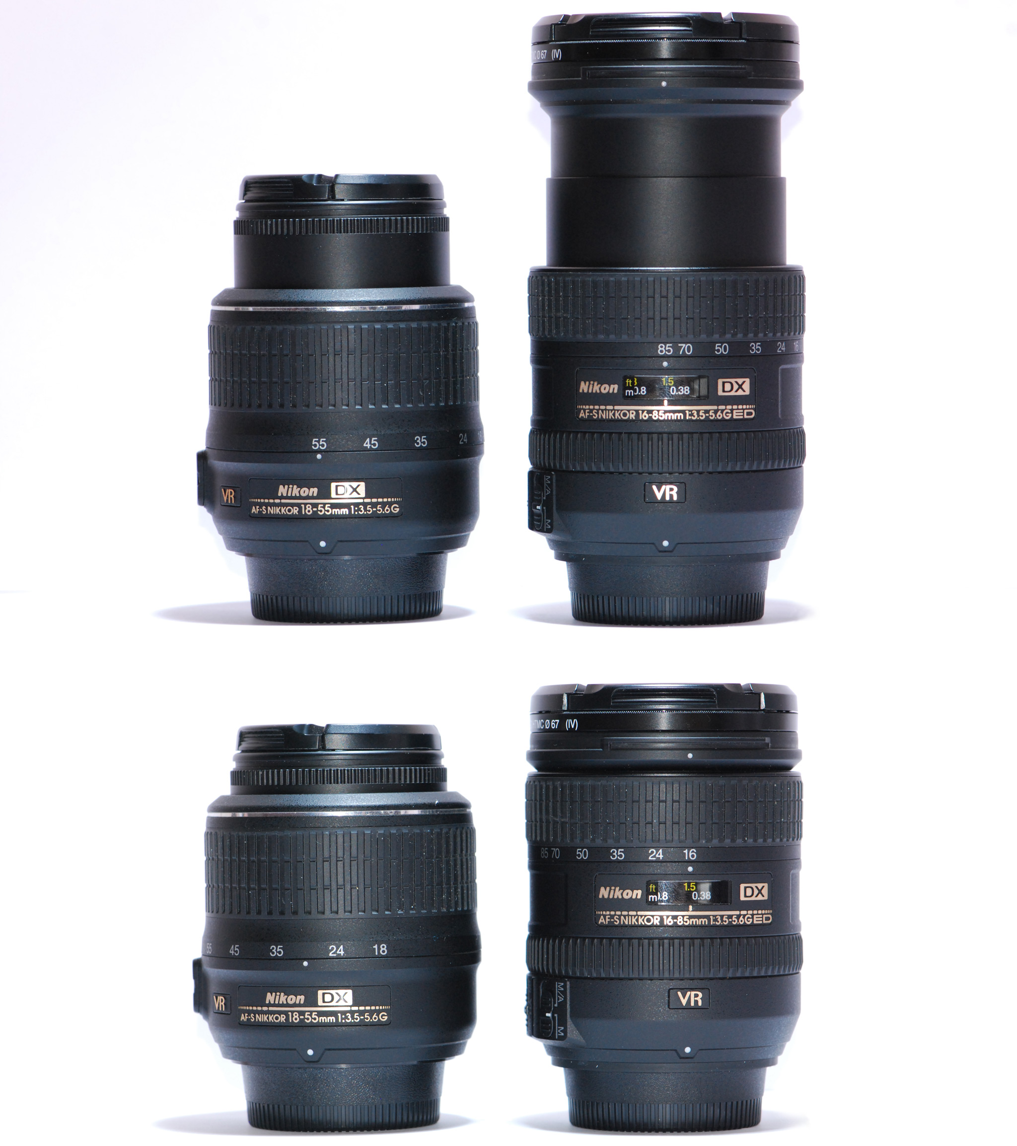 Nikkor 18-55 vs. 16-85 comparison